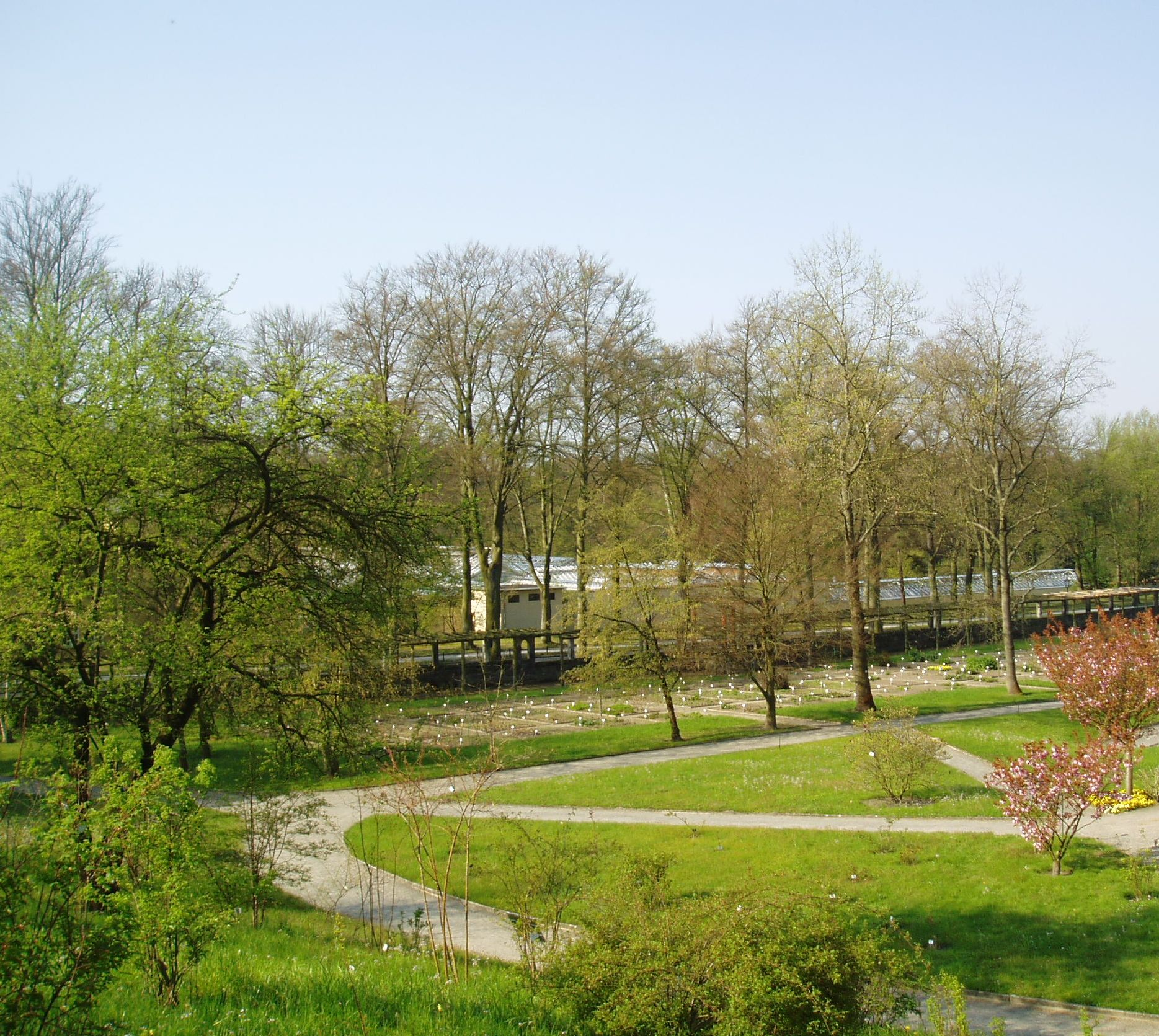 Paradise garden, botanical garden, Potsdam, Germany